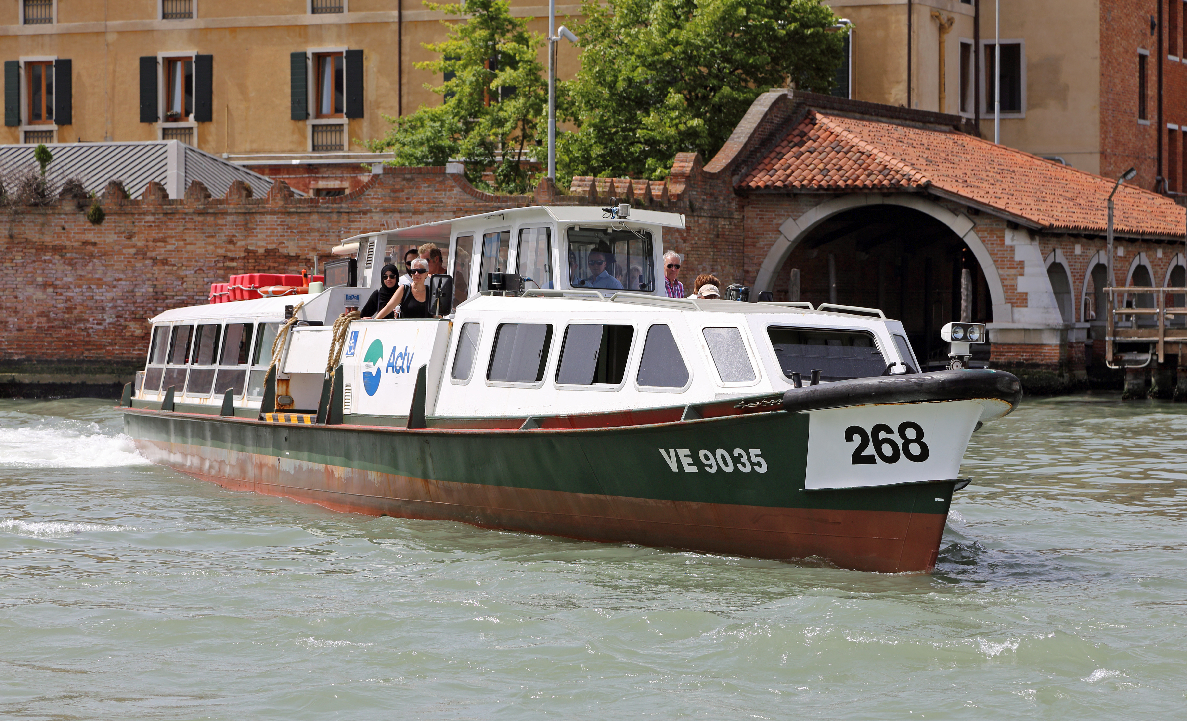 Venice (Italy): ACTV waterbus (type: motoscafo) 268